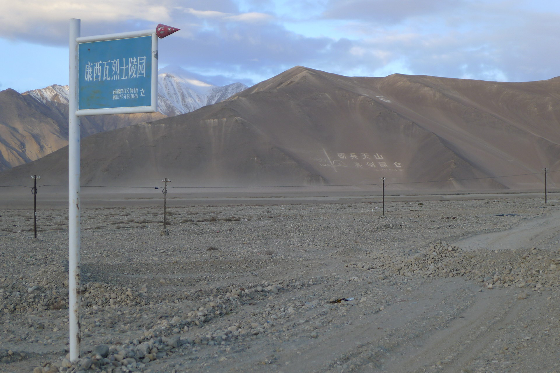 Kangxiwar memorial sign in Pishan County